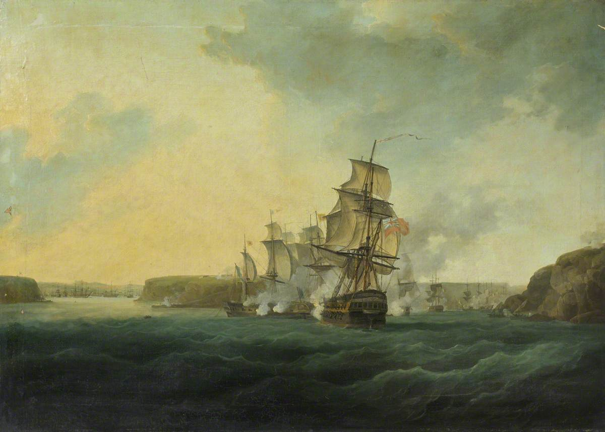 HMS 'Montagu' Forcing the Enemy to Move from Bertheaume Bay, 22 August 1800 NMM NMMG BHC0521-001 Medium oil on canvas on board Measurements H 81.5 x W 106.5 cm Accession number BHC0521